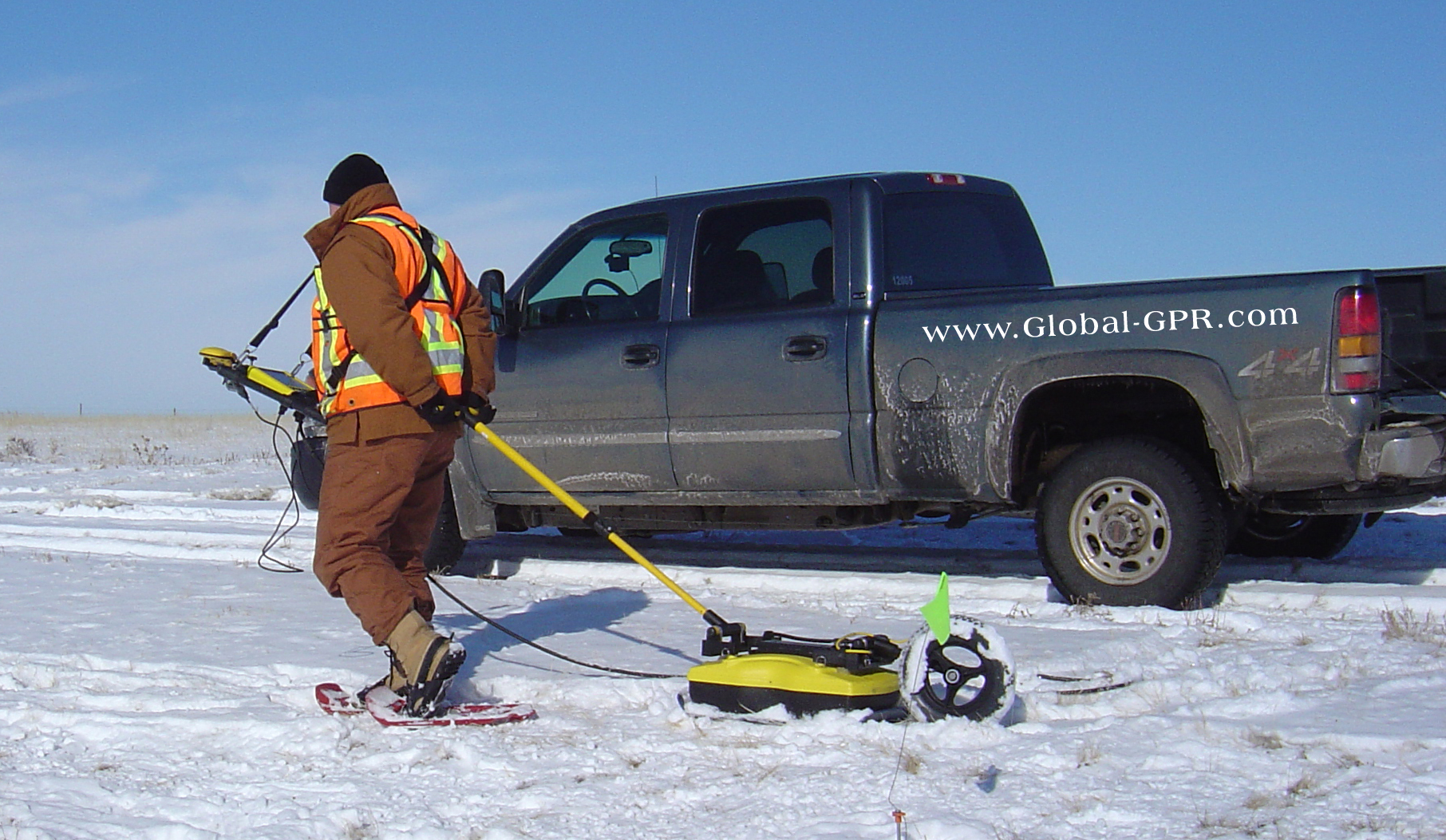 Non-destructive subsurface geophysical survey using ground penetrating radar.